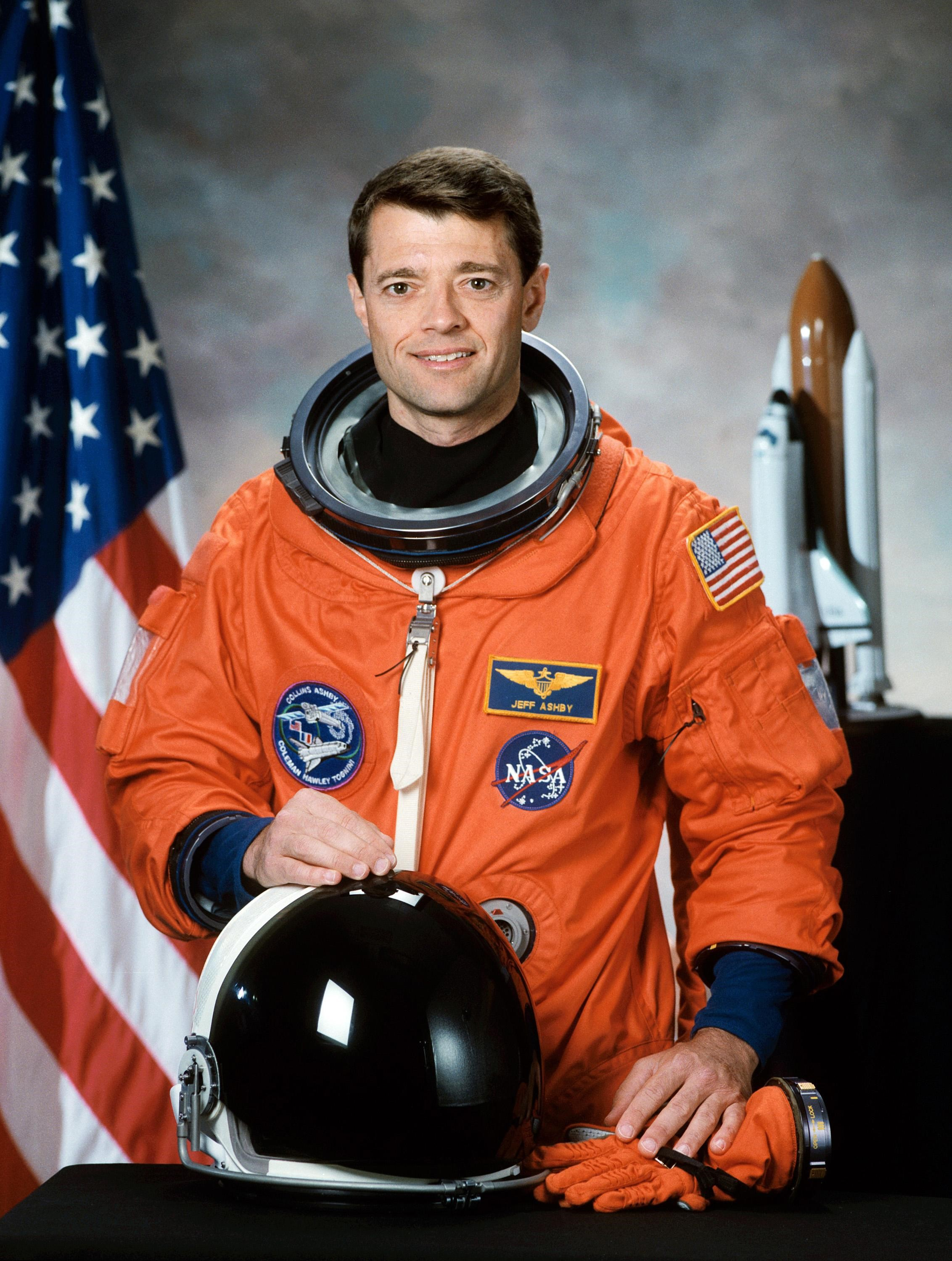 Astronaut Jeffrey S. Ashby, STS-112 mission commander.